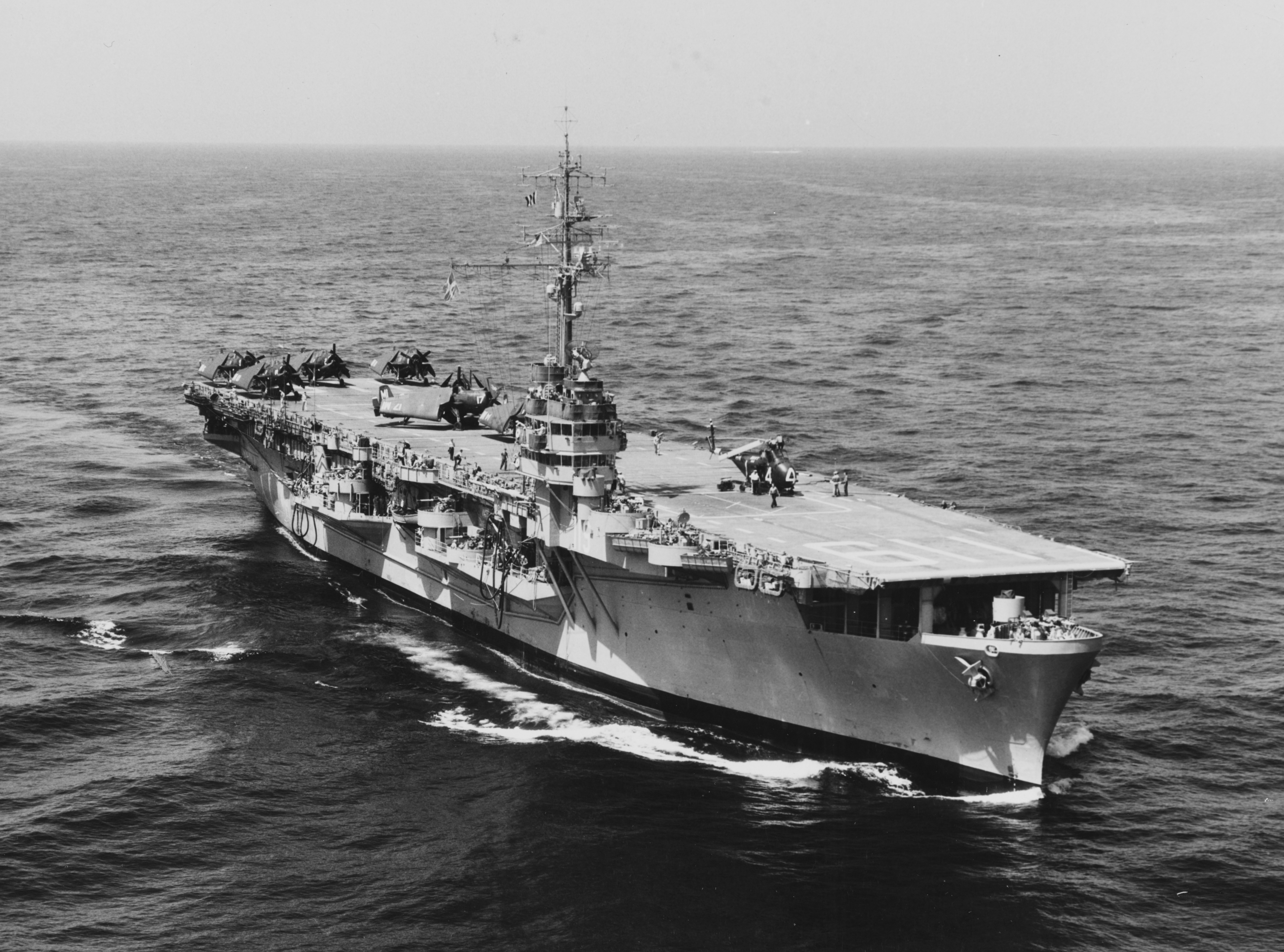 The U.S. Navy escort carrier USS Point Cruz (CVE-119) underway at sea east of Japan, 23 July 1953. She has anti-submarine aircraft on her flight deck: seven Grumman TBM-3S and TBM-3W Avenger of Anti-Submarine Squadron 23 (VS-23) and one Sikorsky HO4S of Helicopter Anti-Submarine Squadron 2 (HS-2).